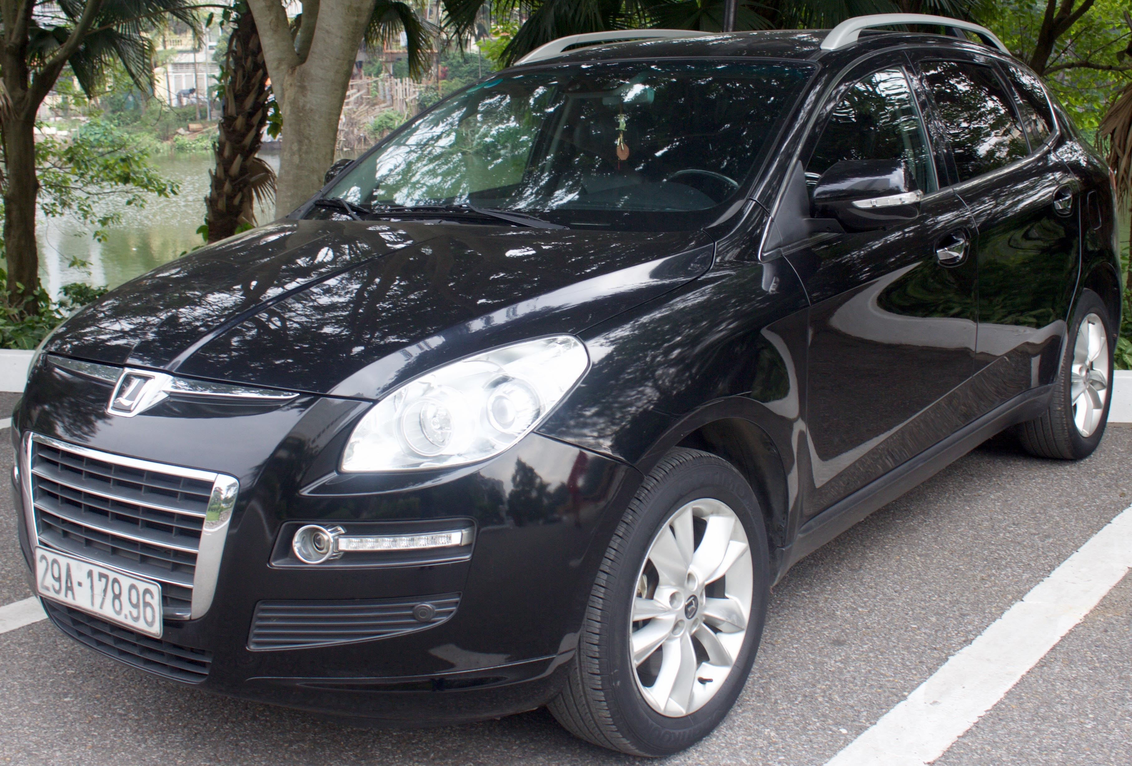 Luxgen7 SUV in Hanoi Vietnam